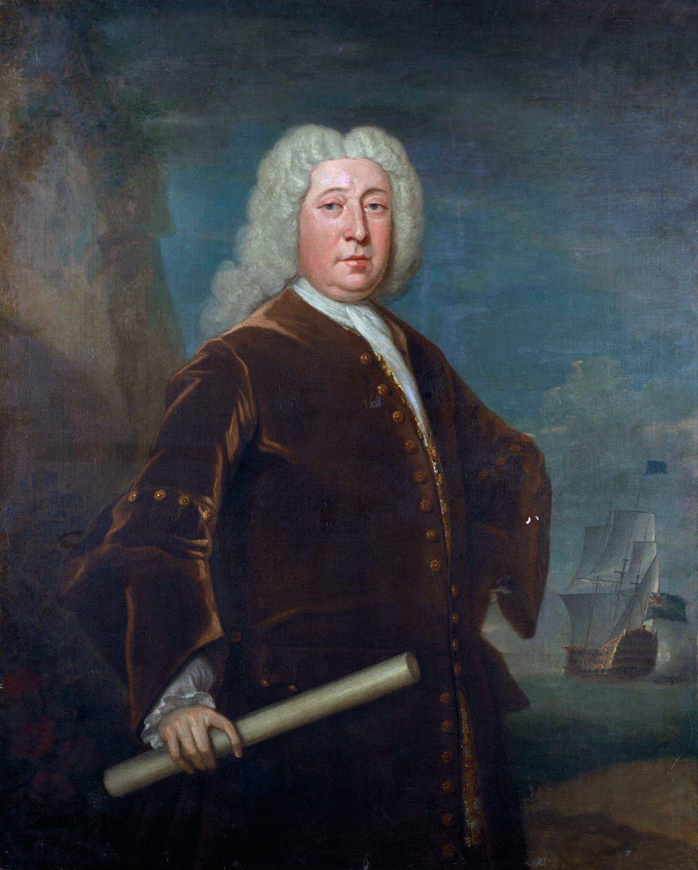 While commanding the ‘Carcass’, 1701–02, Walton went to the West Indies with a squadron under Vice-Admiral John Benbow, who in March 1702 appointed him to the ‘Ruby’. She was one of the squadron with Benbow in the actions with Admiral Jean-Baptiste Du Casse, 19–24 August 1702, off Cape Santa Marta (Columbia), when Walton was the only captain who loyally supported his admiral. In 1718 he played a notable part in Sir George Byng’s action off Cape Passaro, 31 July 1718. The portrait is signed lower left ‘B. Dandridge Pinx.’, and was probably painted 1734–39. Dandridge had taken over Kneller’s old studio in 1731.